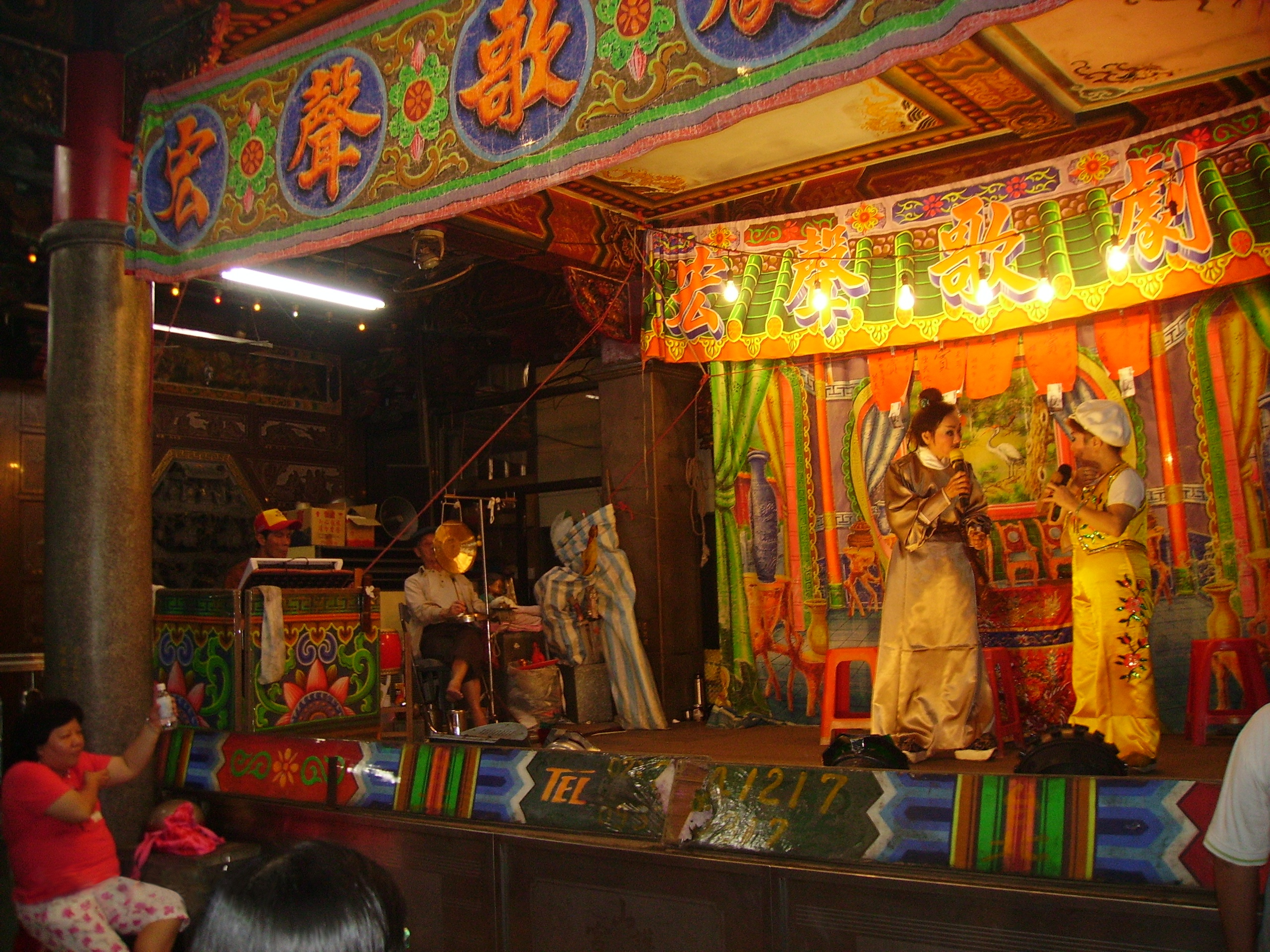 Taiwanese Ke-Tse operaBân-lâm-gú: kua-á-hì（歌仔戲）